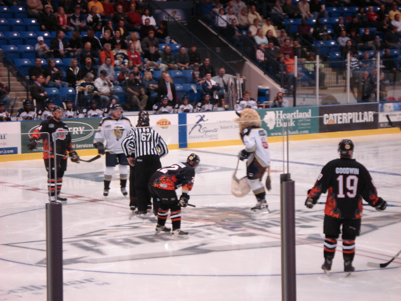 Inaugural puck drop for Prairie Thunder first home game